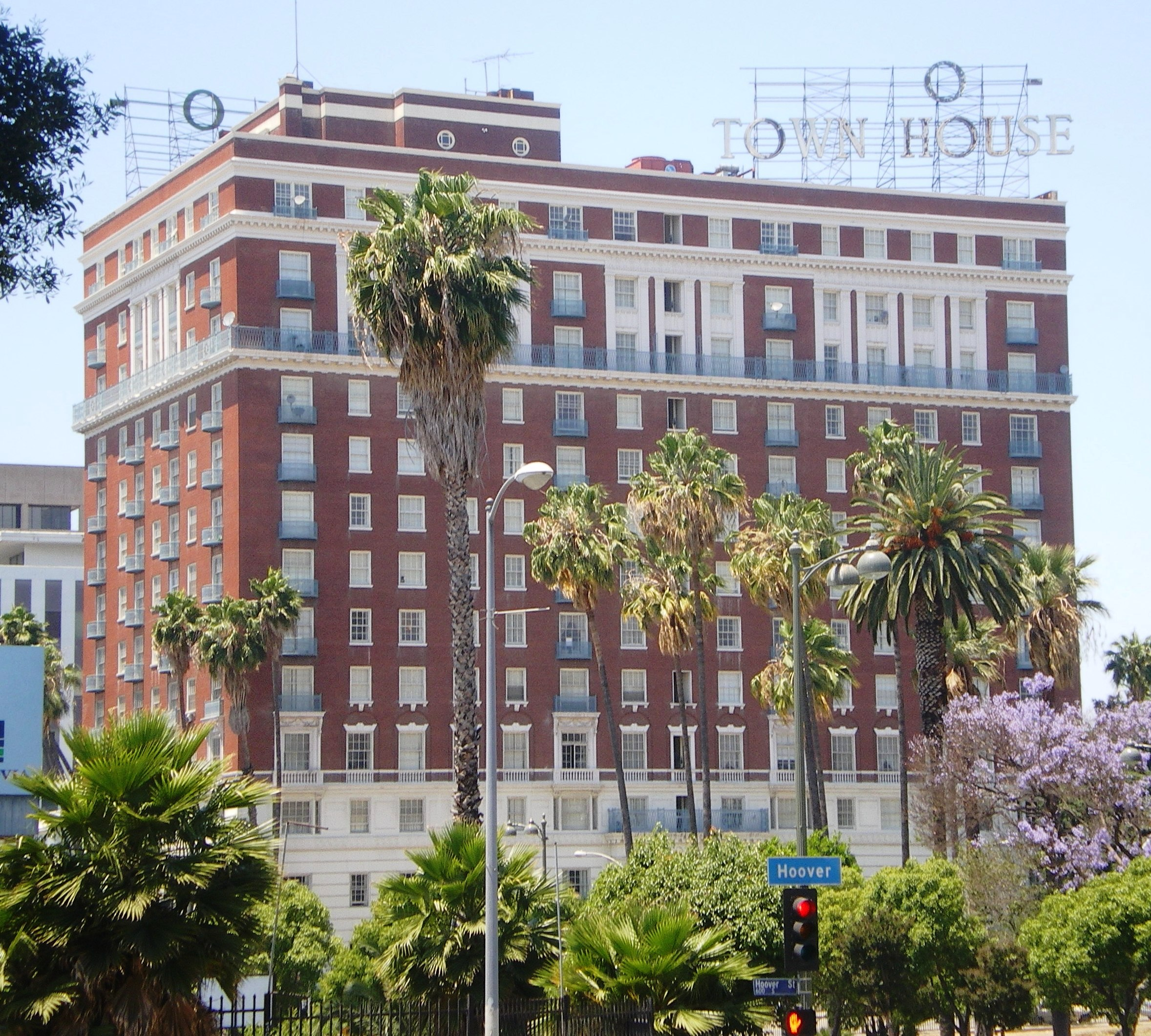 The Town House, 2959-2973 Wilshire Blvd., Los Angeles, California